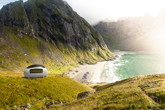 Ecocapsule - a beautiful, smart, self-sustainable micro-home - place on a cliff.